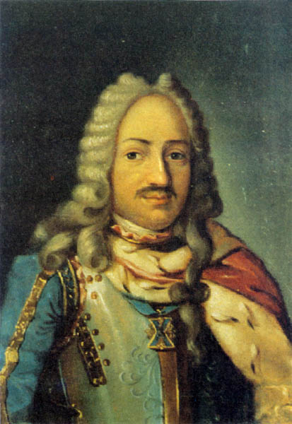 Franz Lefort, Russian Admiral (1695)